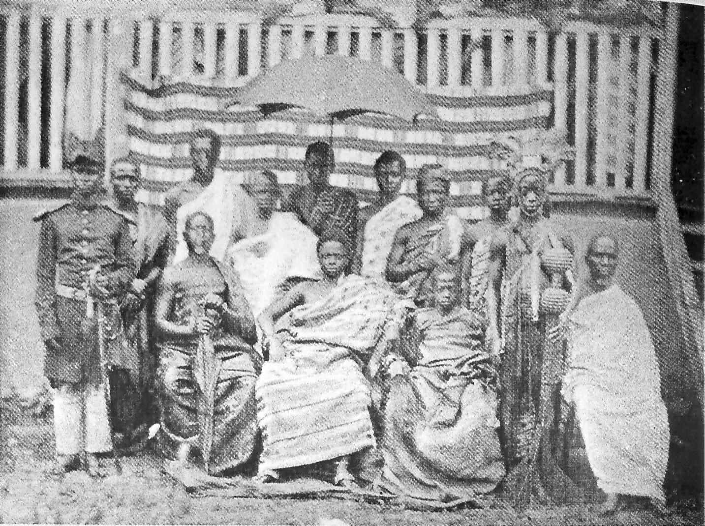 Okyenhene (King of Akyem-Abuakwa) Amoako Atta I and his entourage in 1866 or 1867th. Amoako Atta is 17 years old on this recording. He reigned as Okyenhene 1866 - 1887.